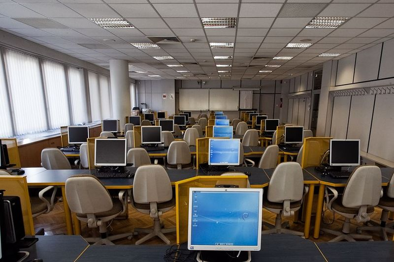 LPDS training room